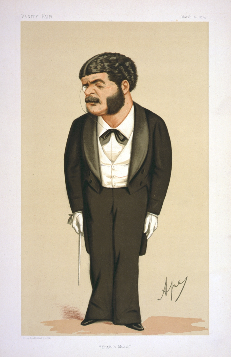 Caricature of Arthur Seymour Sullivan (1842-1900). Caption read "English Music".